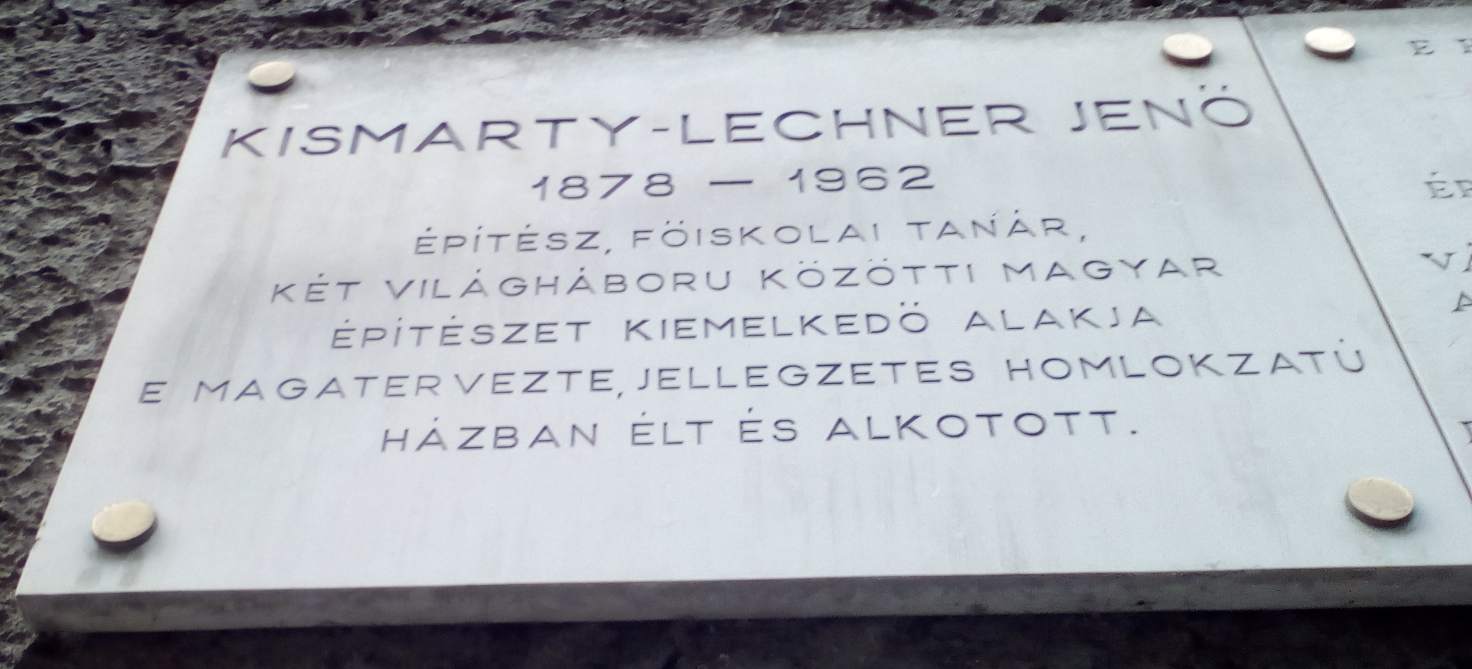 Commemorative plaque of Jenő Kismarty-Lechner in Budapest District XI, Mészöly Street No 4.